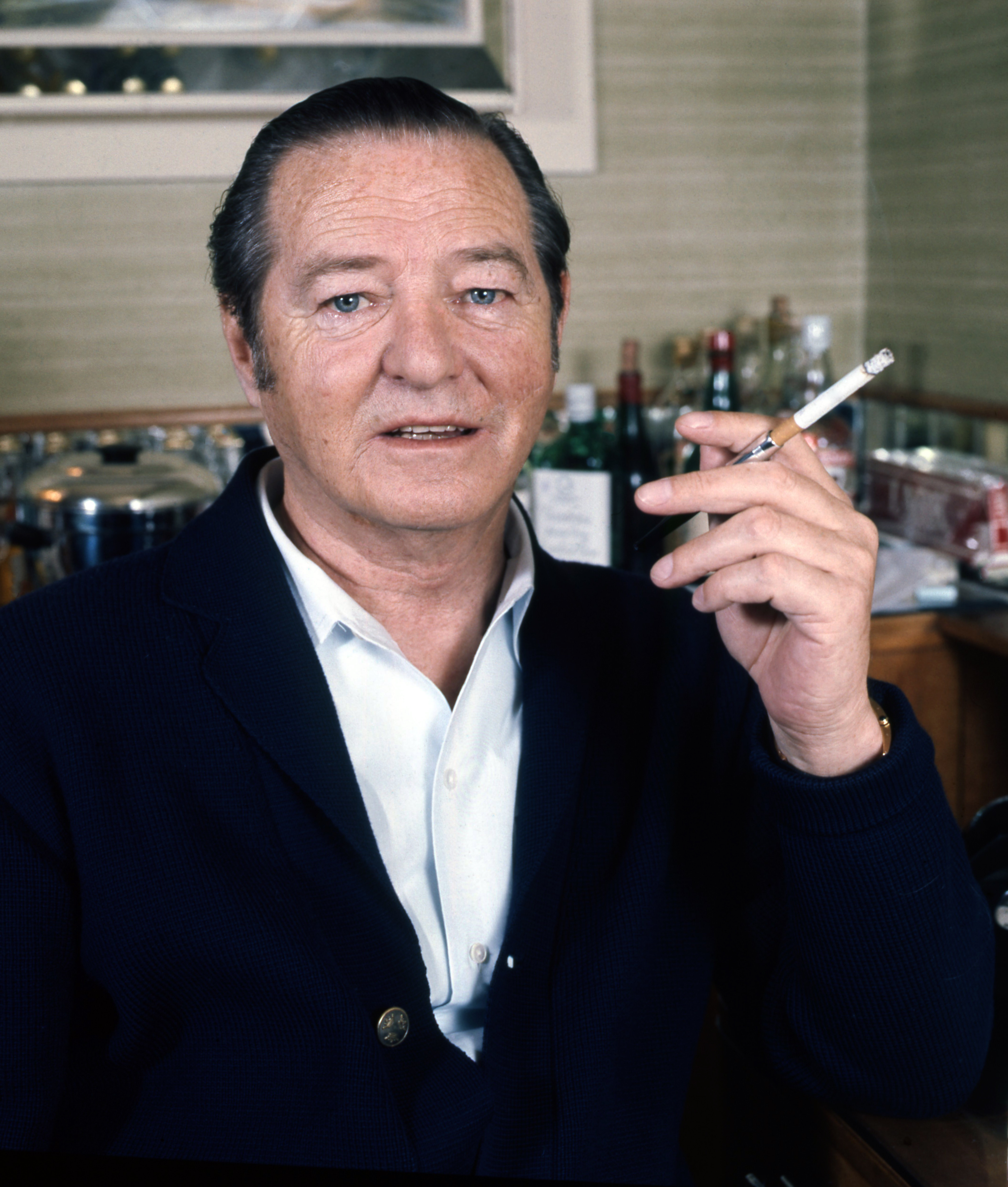 Sir Terence Rattigan taken in his suite at Claridges Hotel London